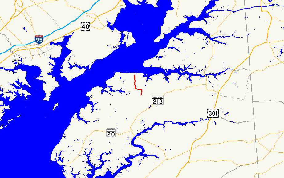 Map of Maryland Route 292